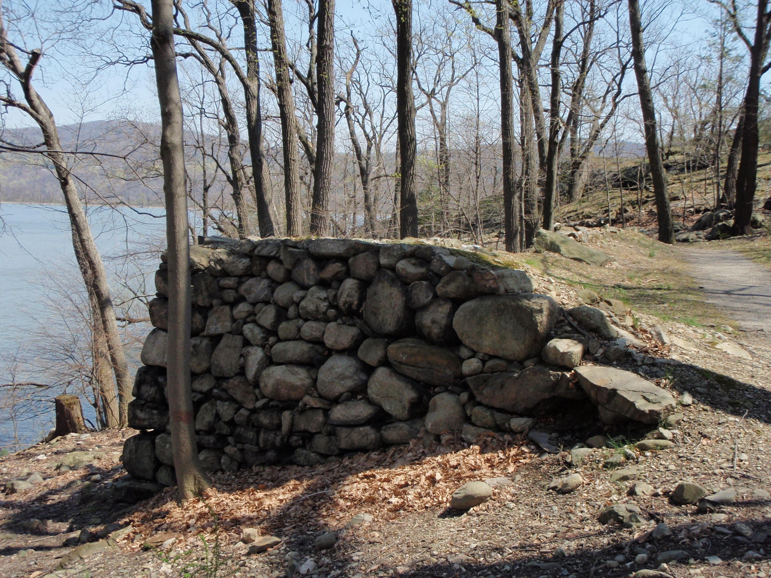 The remnants of the earthworks of Chain Battery at West Point, New York. The western end of the Great Chain was attached in this small cover during the American Revolutionary War. The cannons in this battery, well hidden in the cove, would have opened fire on a British ship had any ever attempted to sail through the chain.